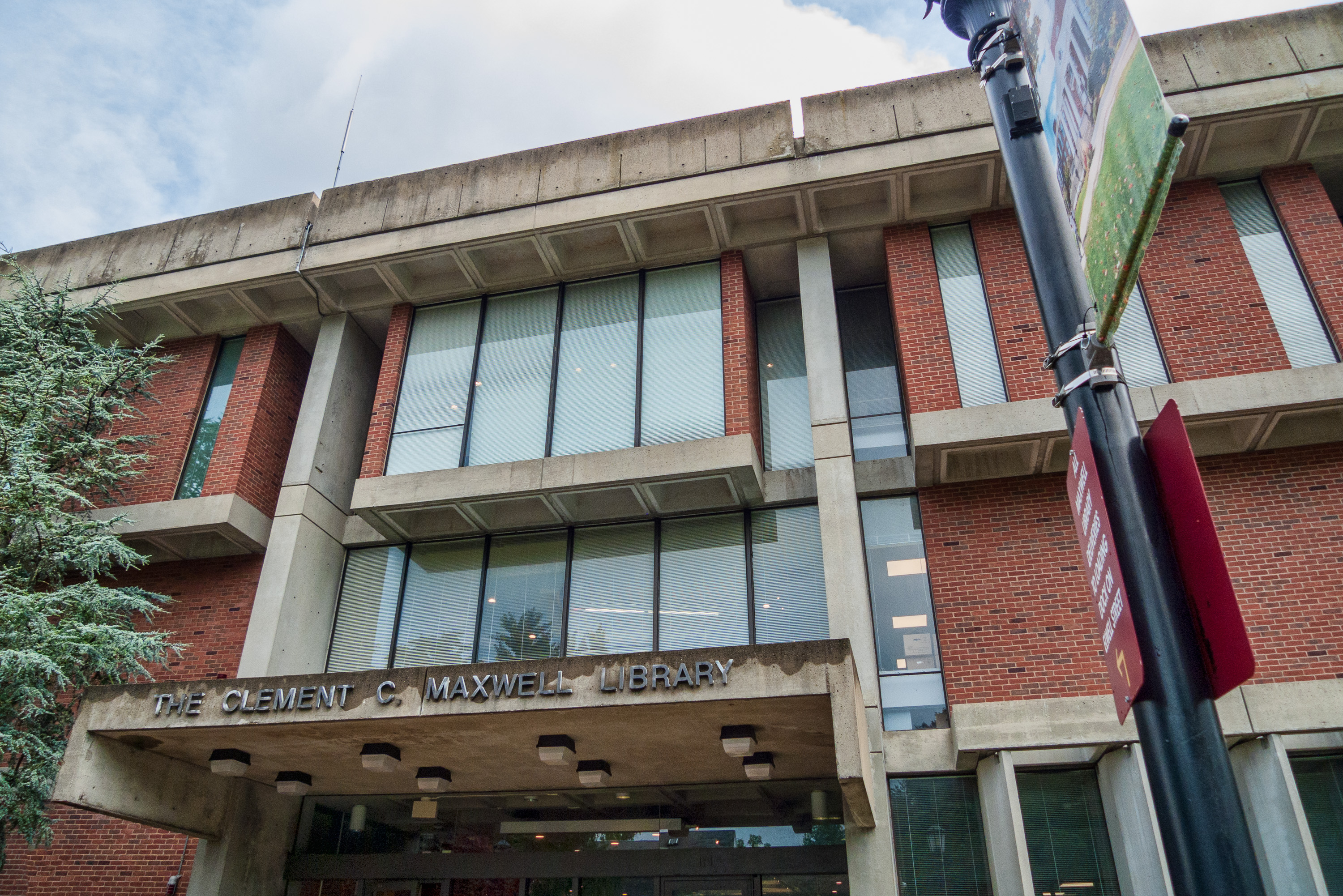 Maxwell Library, Bridgewater State University, Massachusetts